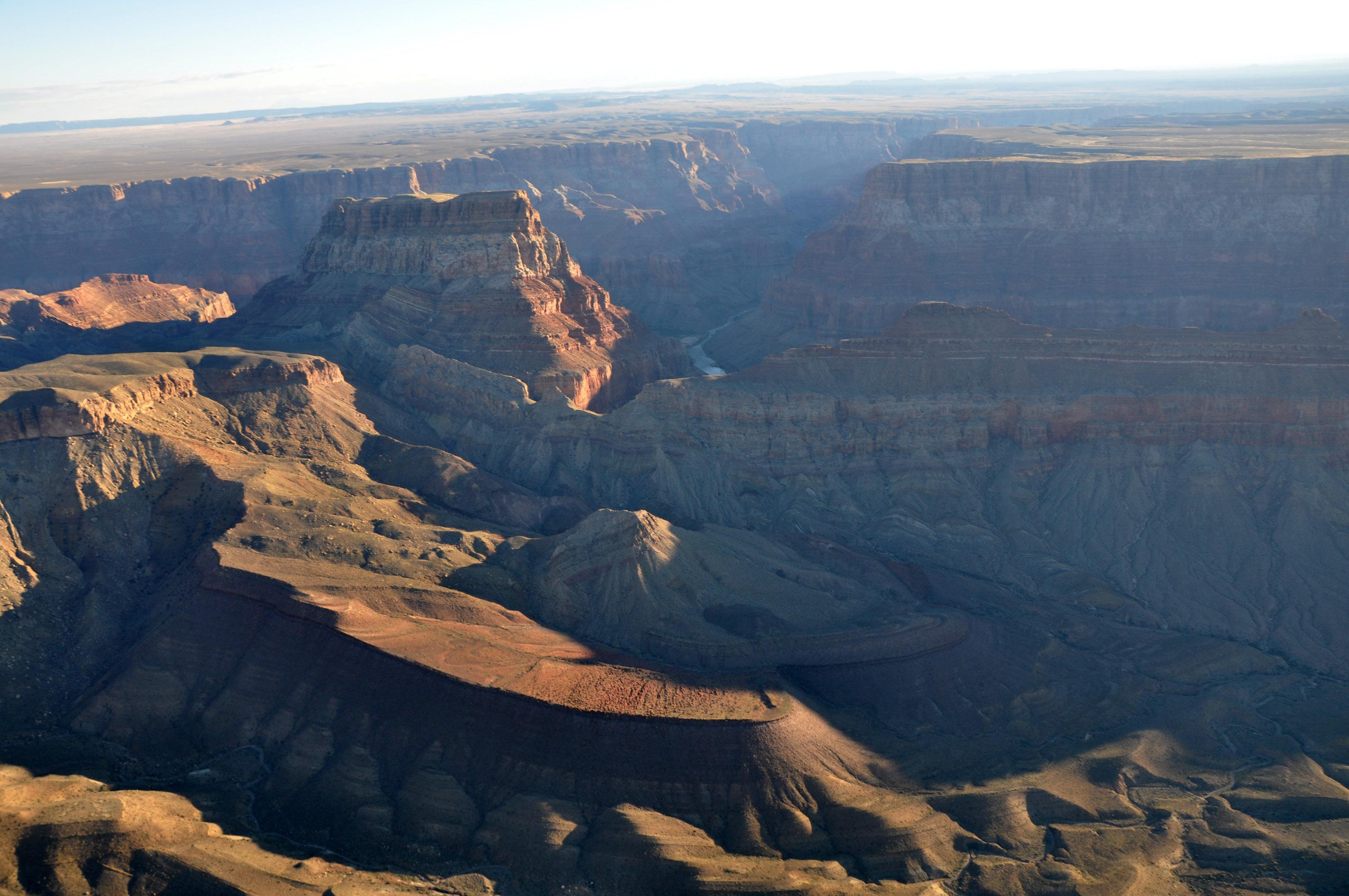 This photo is a view from one of the routes in the National Park Service (NPS) Preferred Alternative within the Draft Environmental Impact Statement (EIS), Special Flight Rules Area in the Vicinity of Grand Canyon National Park (GCNP), illustrating the high quality scenic views and grandeur of GCNP. This view is looking towards the northeast over Carbon Butte and between Chuar and Temple Buttes to the confluence of the Colorado and Little Colorado Rivers..